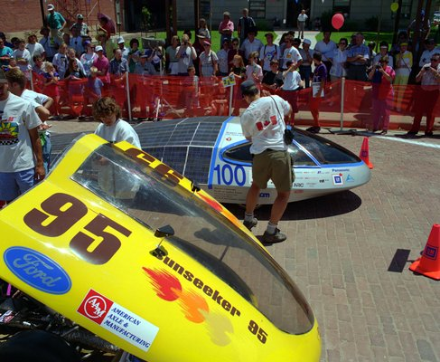 Western Michigan University's Sunseeker solar car during the 1995 Sunrayce.